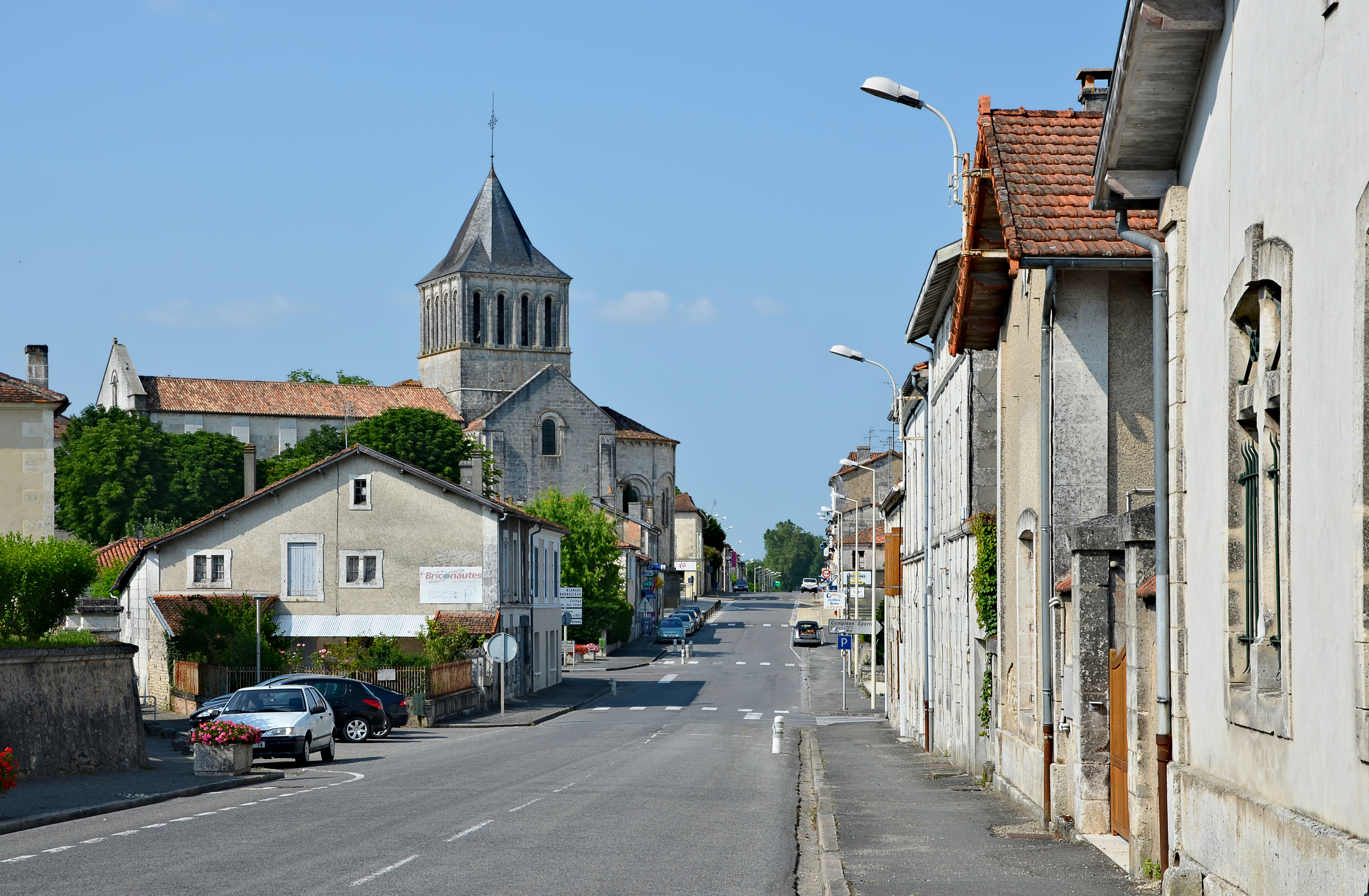 Village main street (Avenue d'Aquitaine i.e. D 674) on Sunday, Montmoreau-Saint-Cybard, Charente, France.